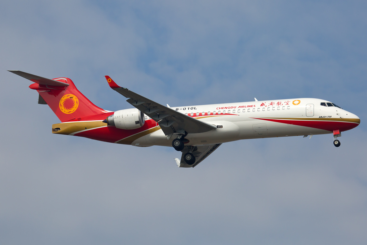 Chengdu Airlines COMAC ARJ21-700 Xiangfeng at the Zhuhai Air Show